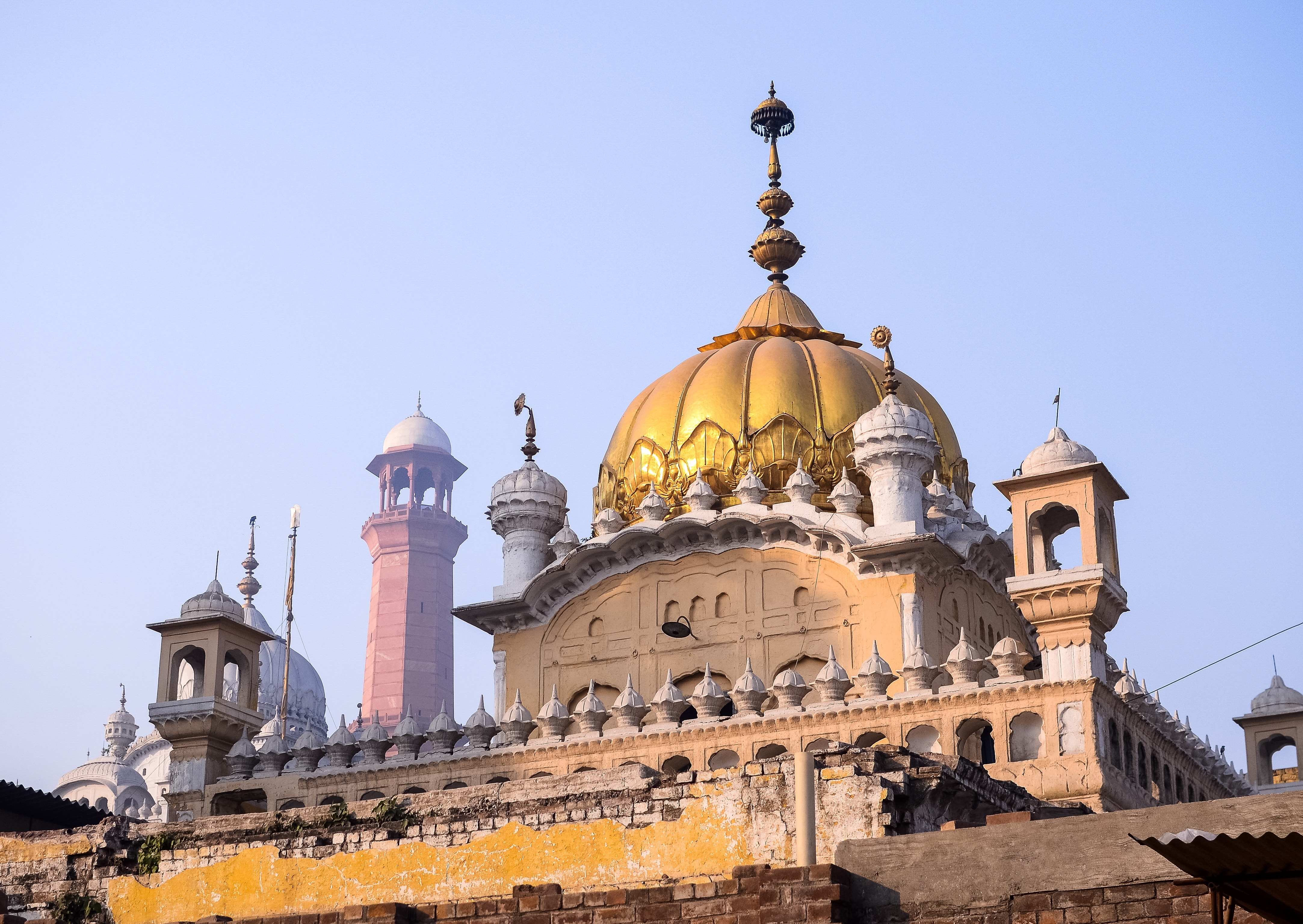 Samadhi of Ranjit Singh, and the golden dome of Gurdwara Dehra Sahib This is a photo of a monument in Pakistan identified as the PB-79